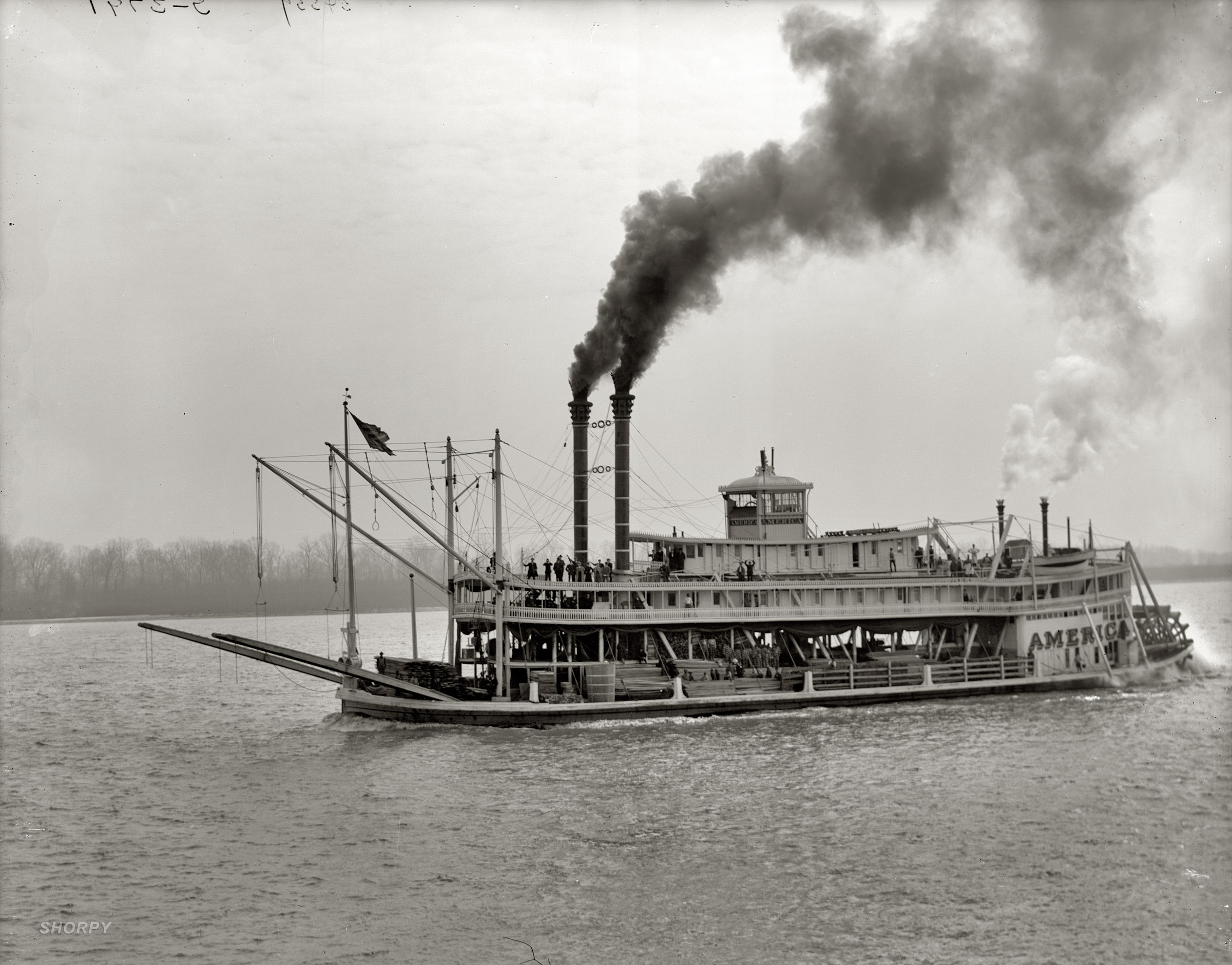 det 4a17928u, 11/1/07, 10:13 AM, 8C, 5810x7189 (171+558), 100%, Custom, 1/80 s, R50.4, G37.9, B63.5 Riverboat America with supplies and prisoners on the Mississippi River. Archeological evidence suggests there may have been a mill at Angola. Samuel L James father operated a mill in Kentucky and was known to spend time at Angola. Author unknown. Found in a collection of old family photos. My ancestor, Samuel L James founded Angola.